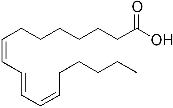 chemical structure of jacaric acid